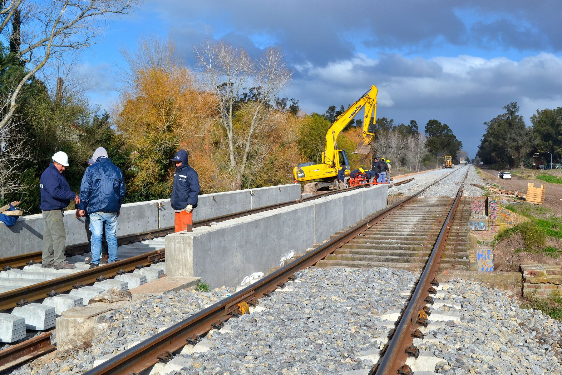 Rail construction on the General Roca Railway on the Camet - Mar del Plata route.